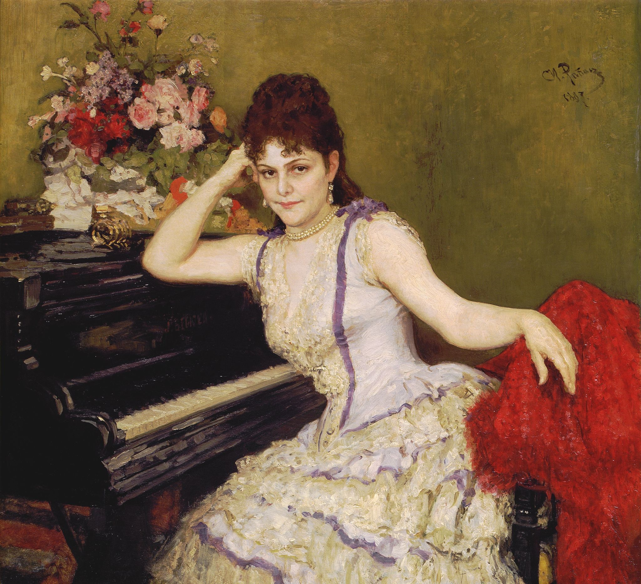 Portrait of pianist and professor of Saint-Petersburg Conservatory Sophie Menter